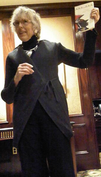 Sallie Bingham with Red Car at a Harvard alumni arts club reading in Manhattan, November 10, 2010. Photo by Martha Wade Steketee.